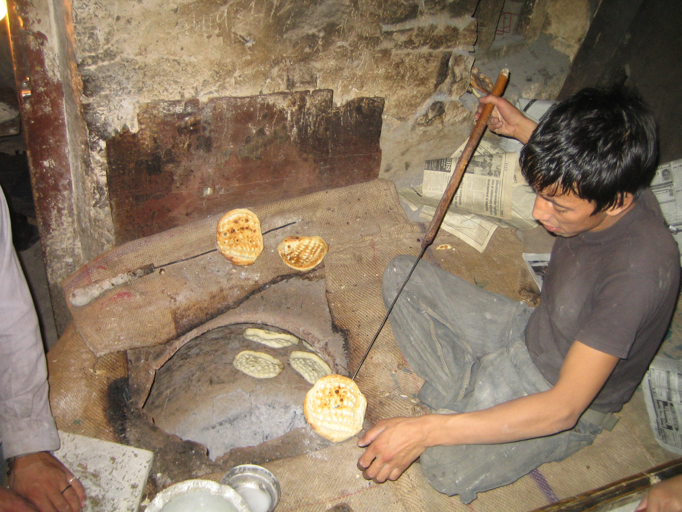 Naan Bakery in Ladakh, northern India. Man sitting on top and uses tools to bake the bread.